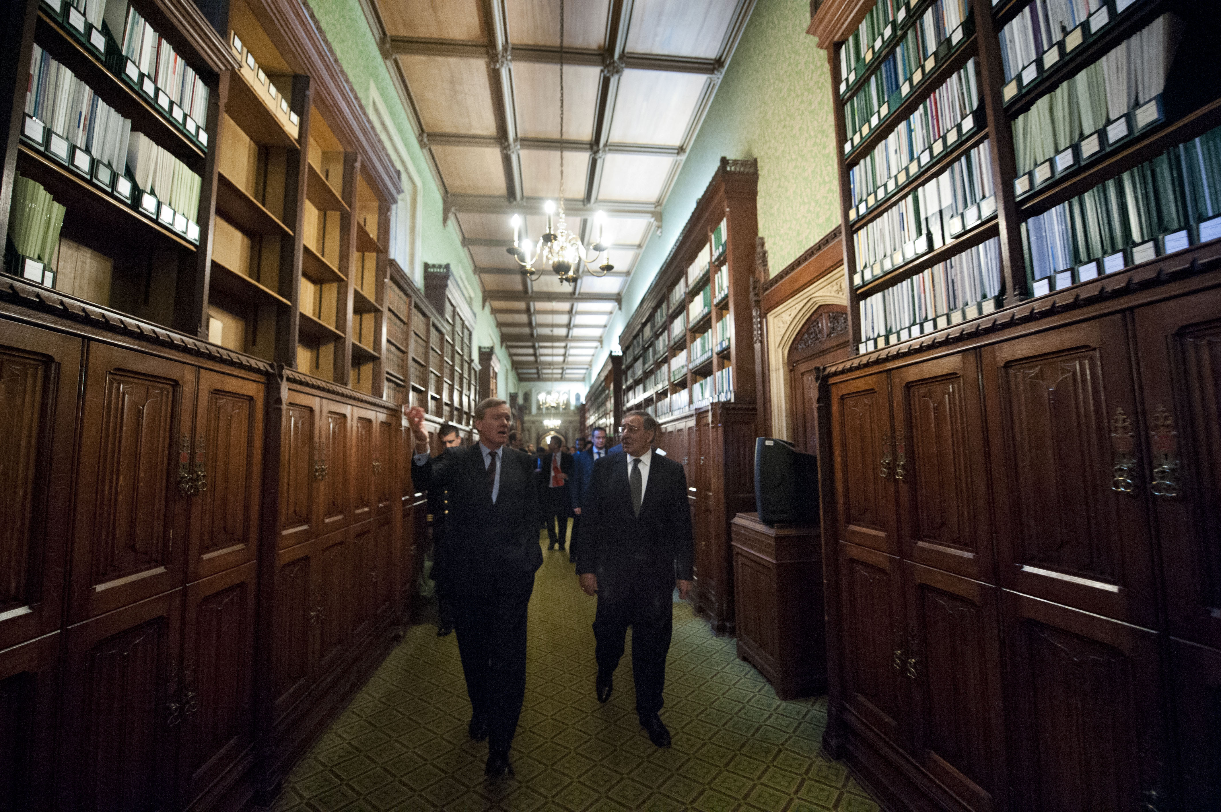 Secretary of Defense Leon E. Panetta is given a tour of the the House of Commons Library by Minister of State for the Armed Forces of the UK, Andrew Robathan, in London, England, Jan. 18, 2013. Panetta is on a six day trip to Europe to visit with foreign counterparts and troops in the area.